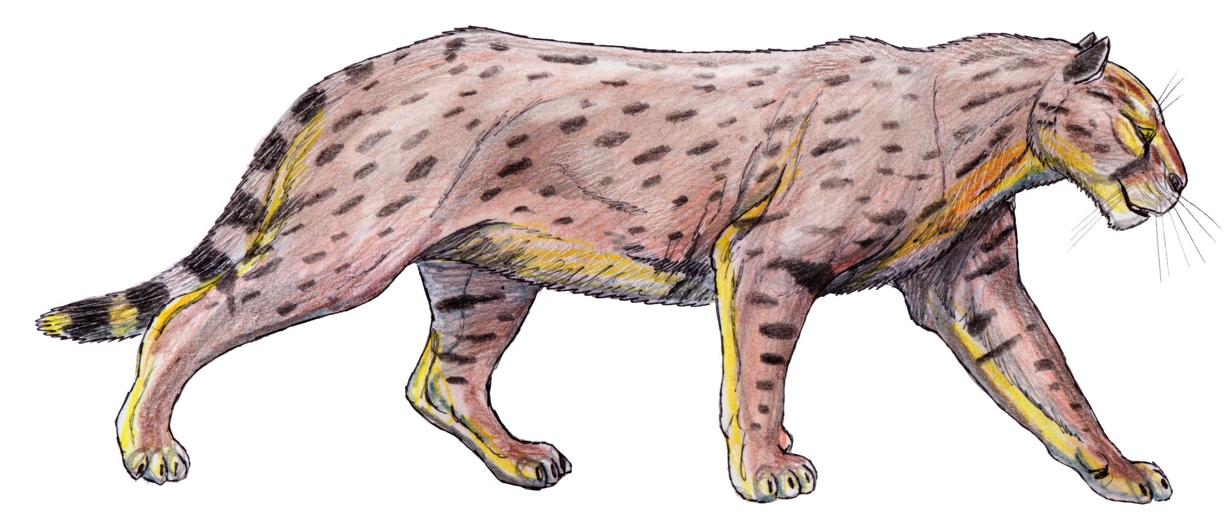 Dinofelis barlowi, from the Early Pliocene to the late Pleistocene of North Hemisphere